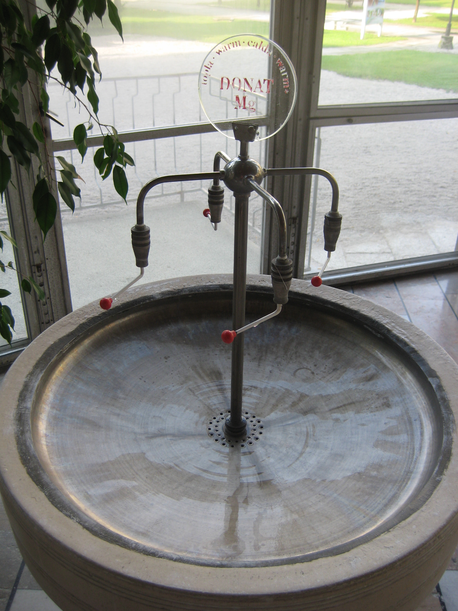 Rogaška Slatina, Slovenia. Donat mineral water spring